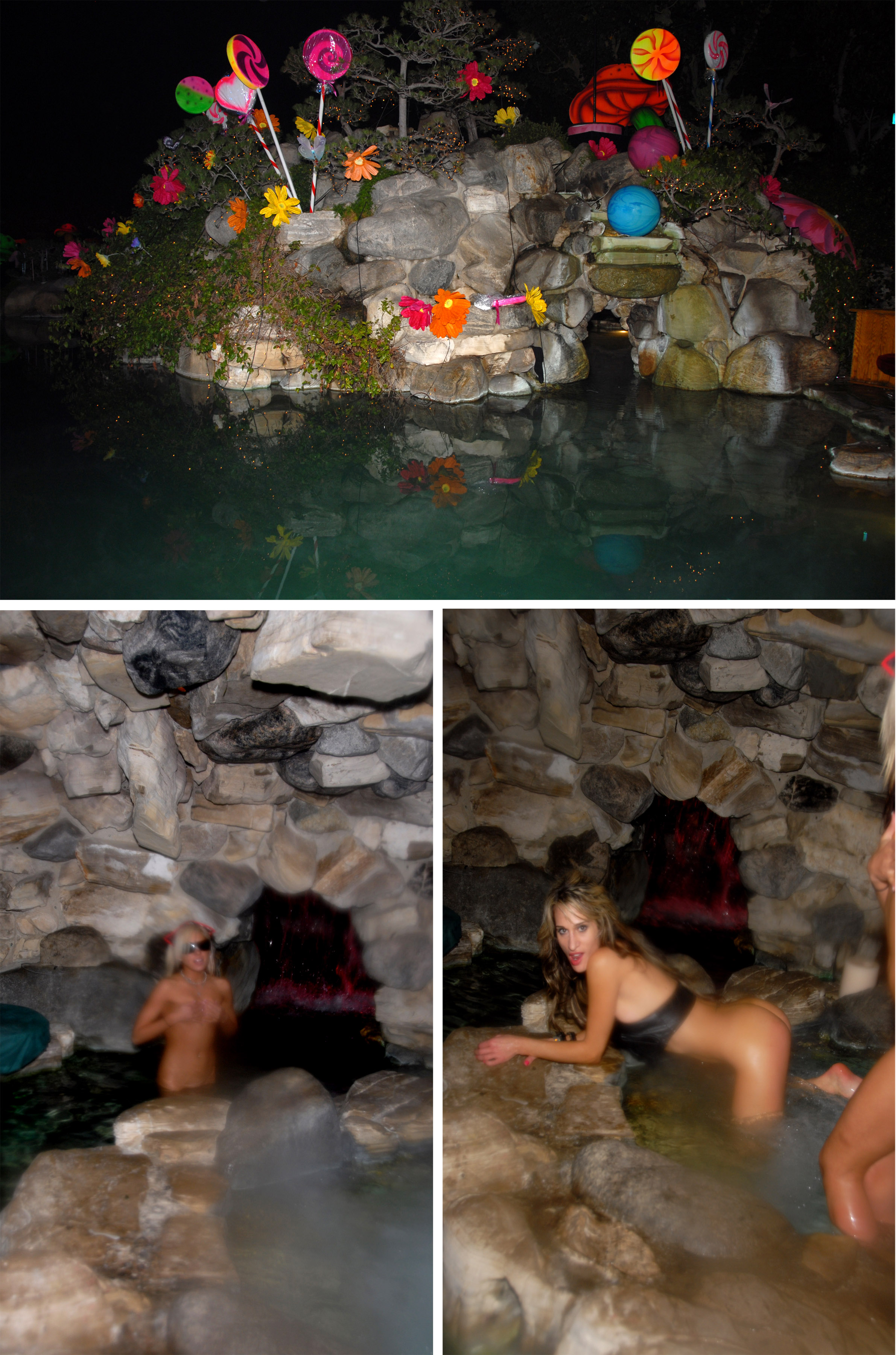 Top Photo: The Grotto Outside; Bottom Photos: Inside the Grotto